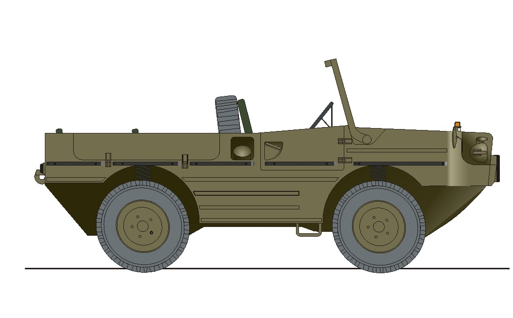 Drawing of a Hotchkiss-Buessing-Lancia VCL (Europa-Jeep) right side